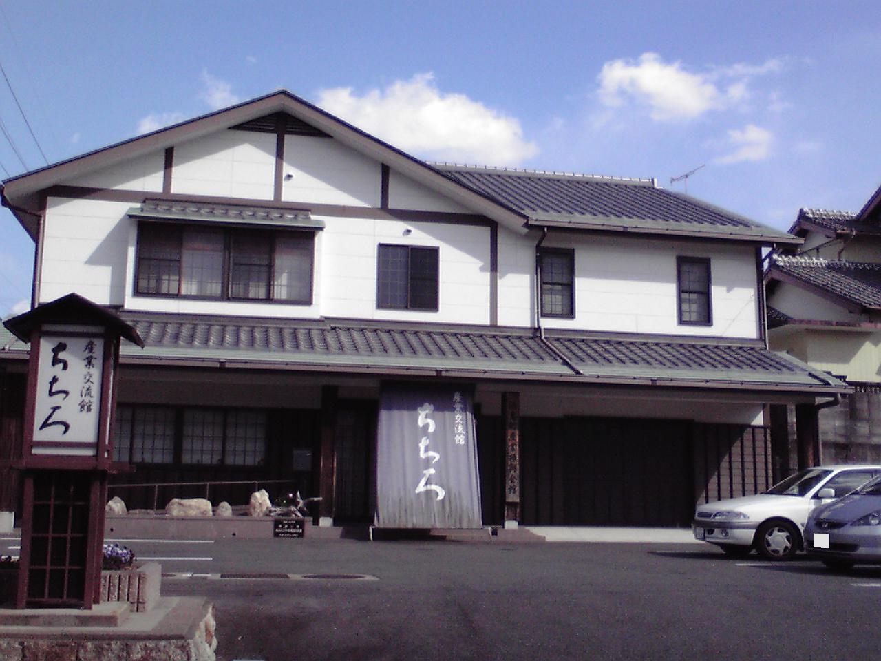 Halls in Japan.